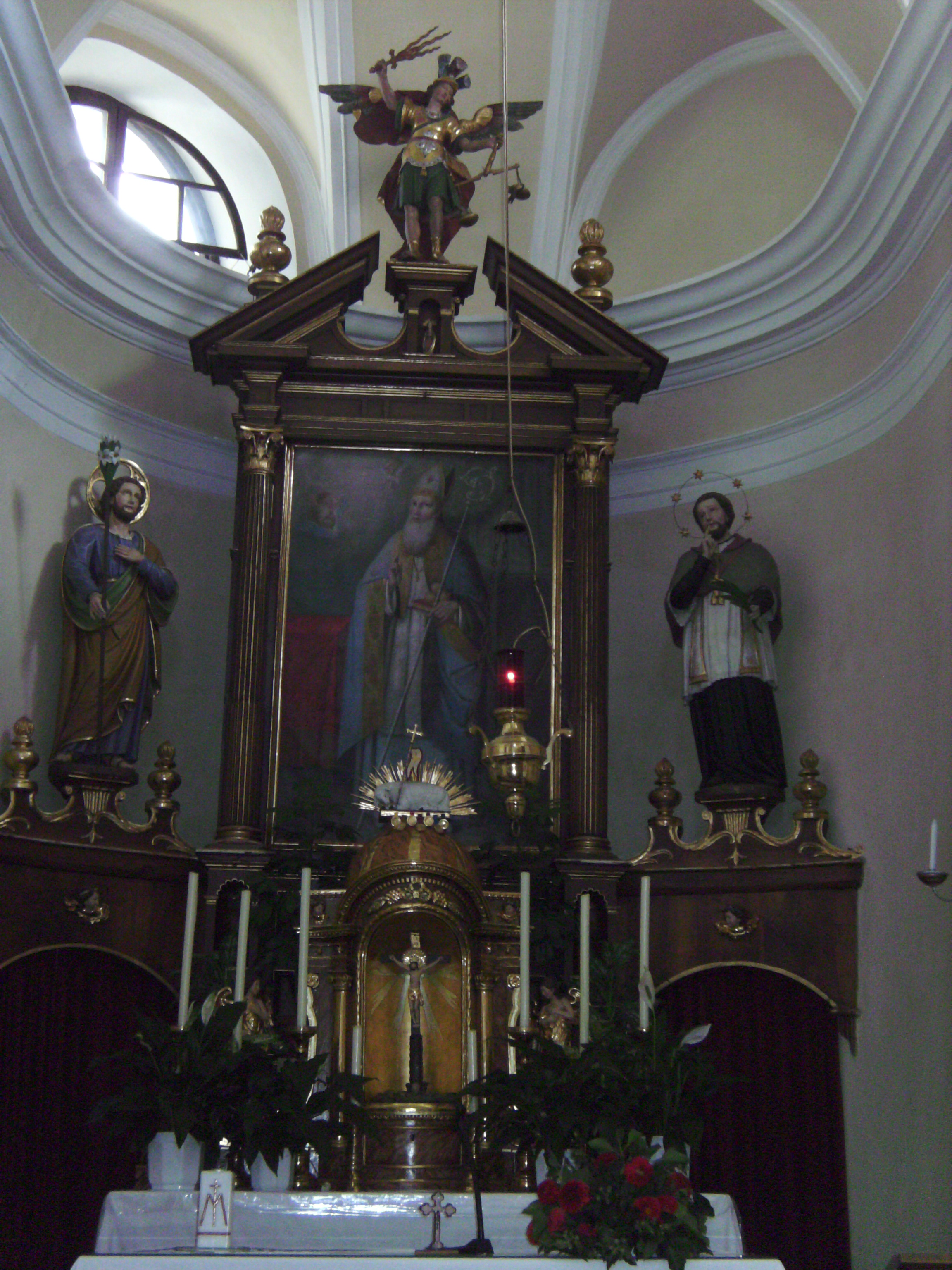 Church of Saint Nikolaus in Vetzan (South Tyrol)